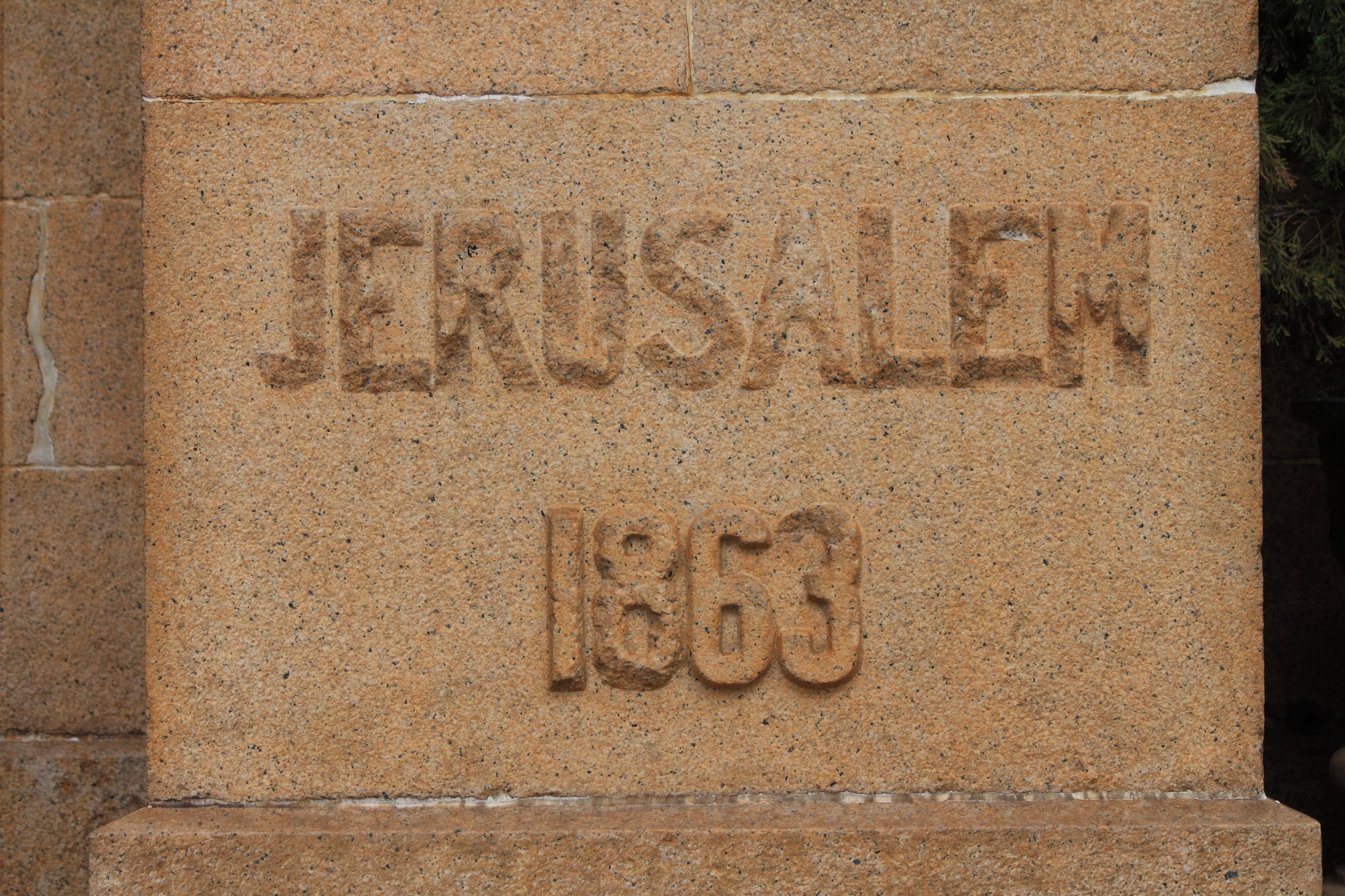 Sacred Heart Cathedral of Guangzhou，in Guangzhou, Guangdong, China.